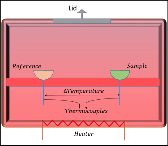 Schematic drawing of heat flux Differential Scanning Calorimetry.